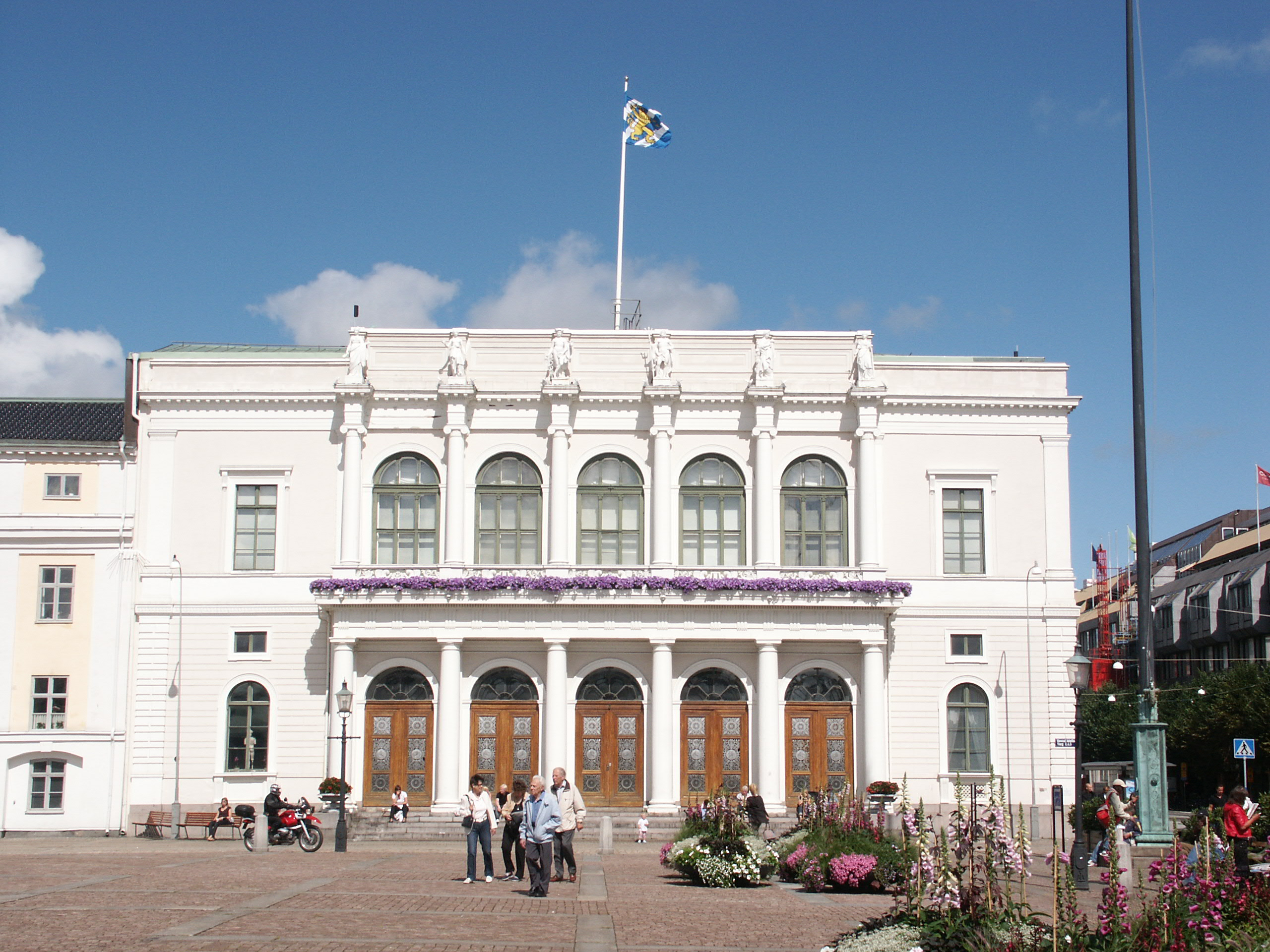 Börsen, Gothenburgs city hall, Sweden